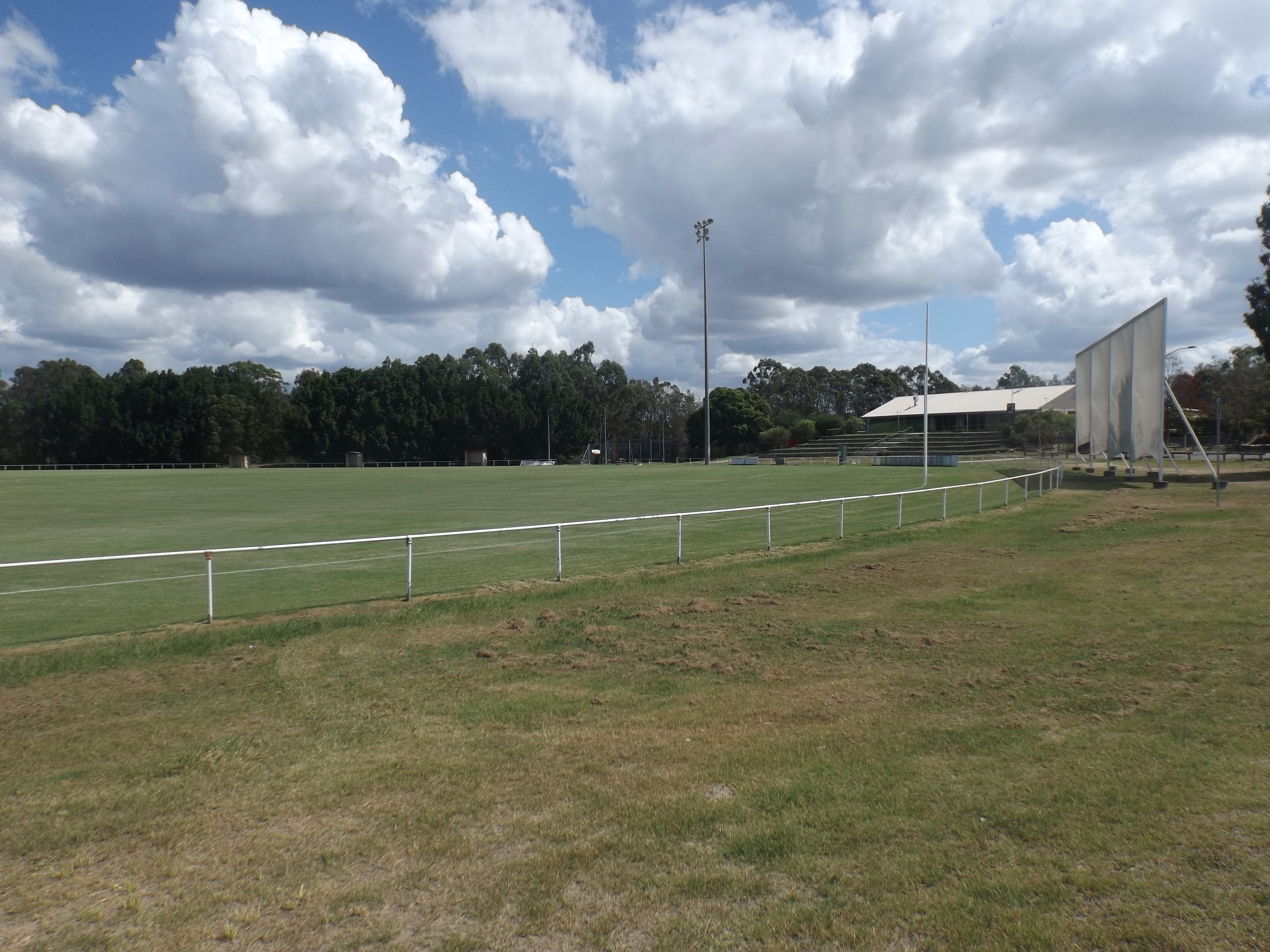 Photo of Tansey Park sports oval and grand stand at Tanah Merah, City of Logan, Queensland, Australia.